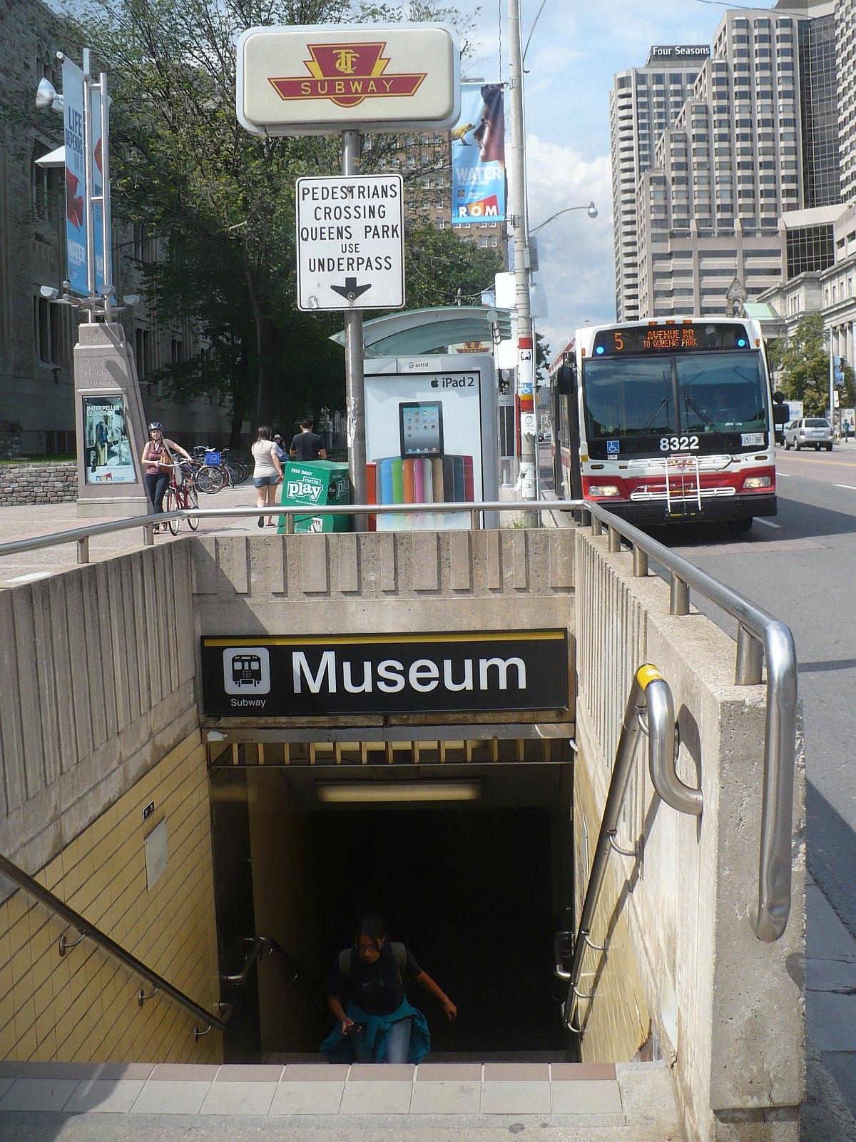 Southbound Avenue Road bus at the west exit from Museum subway station in Toronto